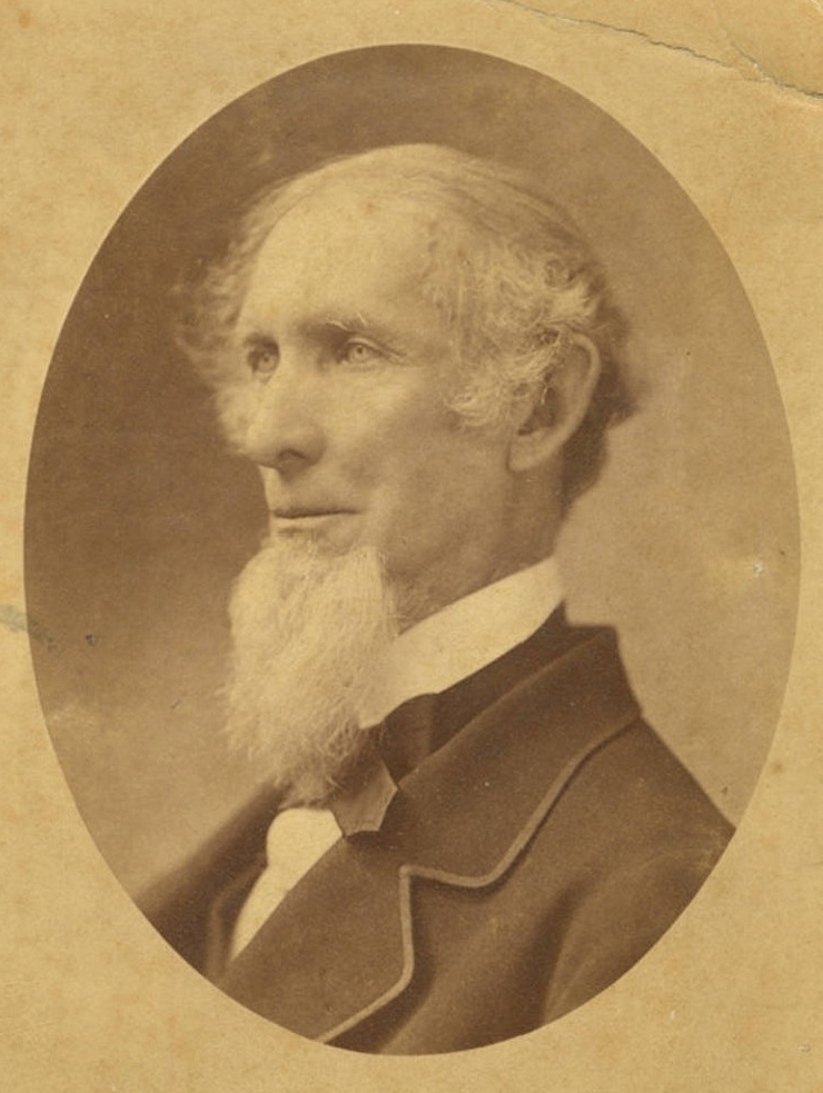 Dr. Josiah Clarke Nott was an author, physician, and surgeon. He founded the Medical College of Alabama in Mobile. He wrote several papers and books regarding yellow fever and race theories. Born 1804, Died 1873.